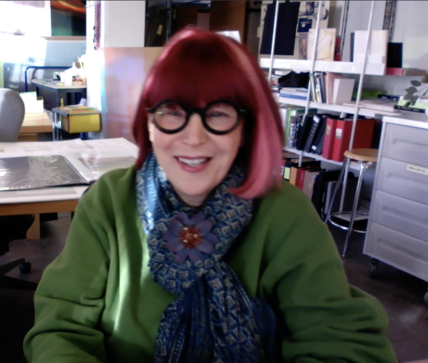 April Greiman in her studio